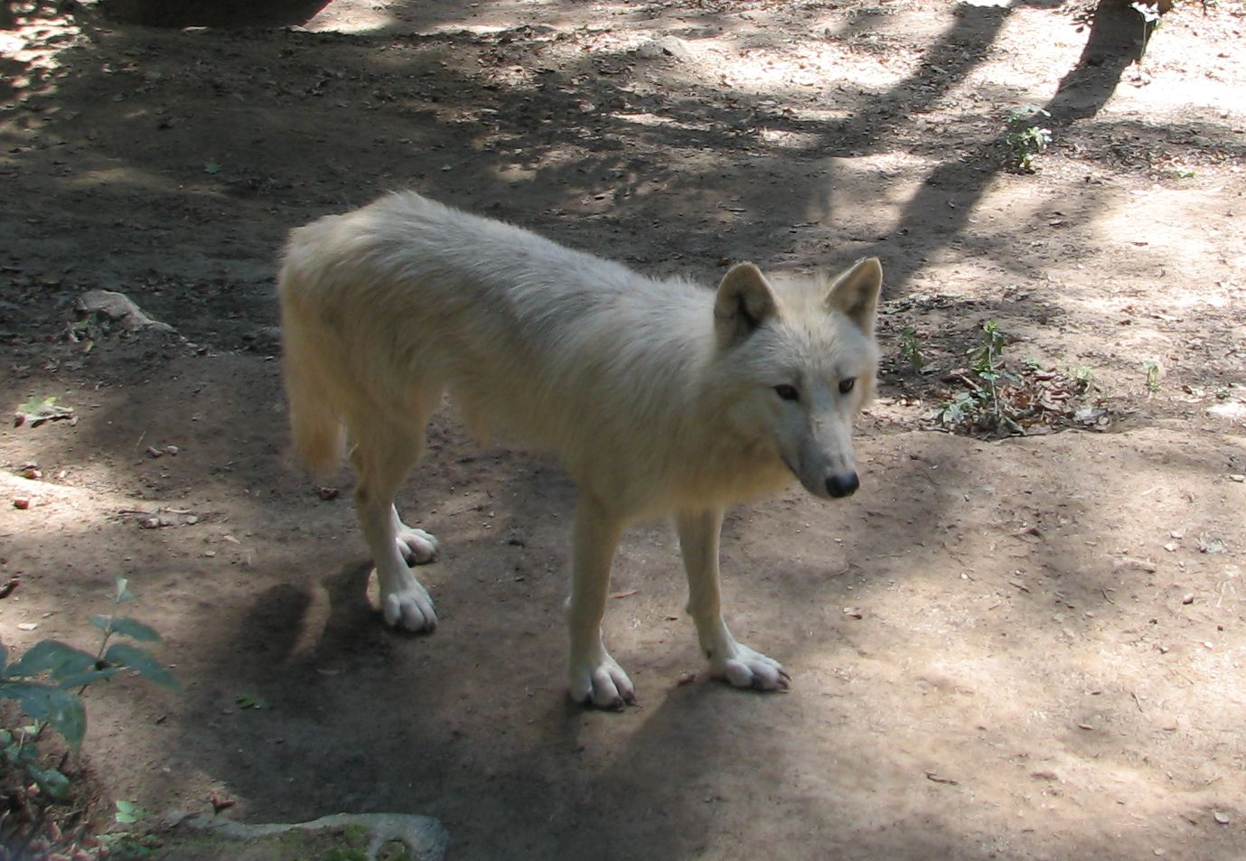 Mackenzie Valley Wolf (Canis lupus occidentalis) in ZOO Olomouc, Czech Republic